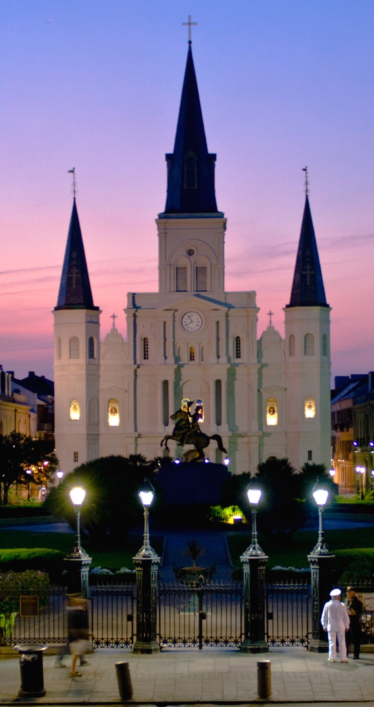 Skinny pic of St. Louis Cathedral, seen from Jackson Square, New Orleans